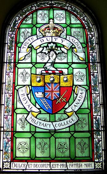 Royal Military College of Canada stained glass window St. Andrew's Presbyterian Church (Kingston, Ontario) 'truth, duty, valour' Dulce et decorum est pro patria mori